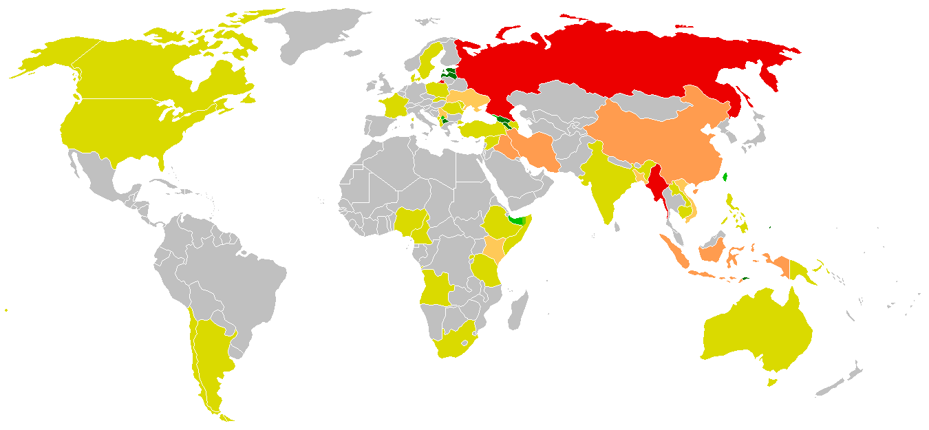 Number of UNPO members (Unrepresented Nations and Peoples Organisation), which are on the territory of official countries, based on Unrepresented_Nations_and_Peoples_Organisation, filled into Image:BlankMap-World.png by User:Fastfission. Rendered without labels for multi-lingual support. Feel free to update this (very easy using Photoshop or GIMP) as reliable information changes. Legend: Dark green: former members Green: defacto independent members Light yellow : 1 member Light orange: 2 members Orange: 3 members Red: more than 3 members Designer: MrNett1974